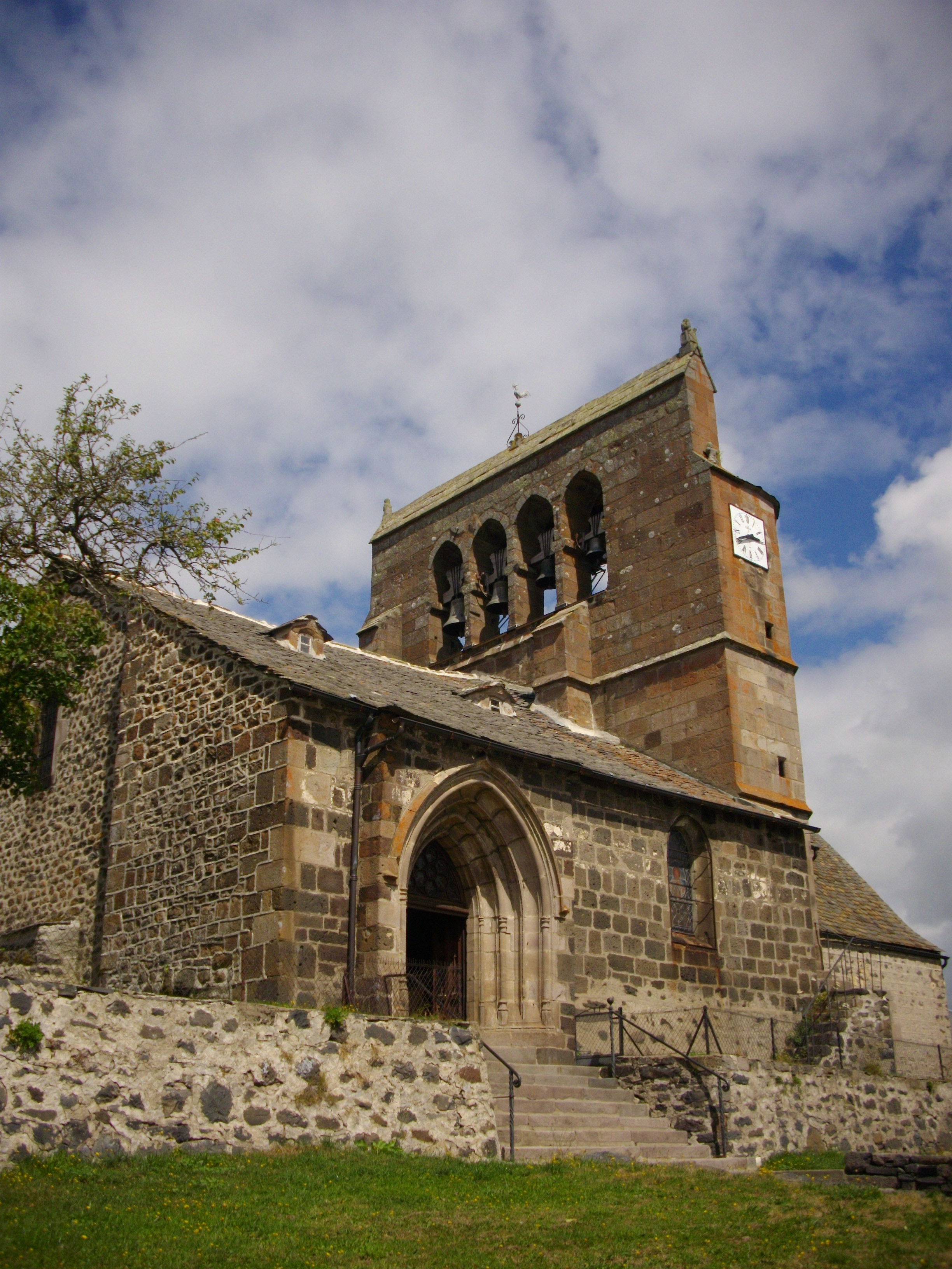 Saint Bartholomew church in Chalinargues (Cantal, France)